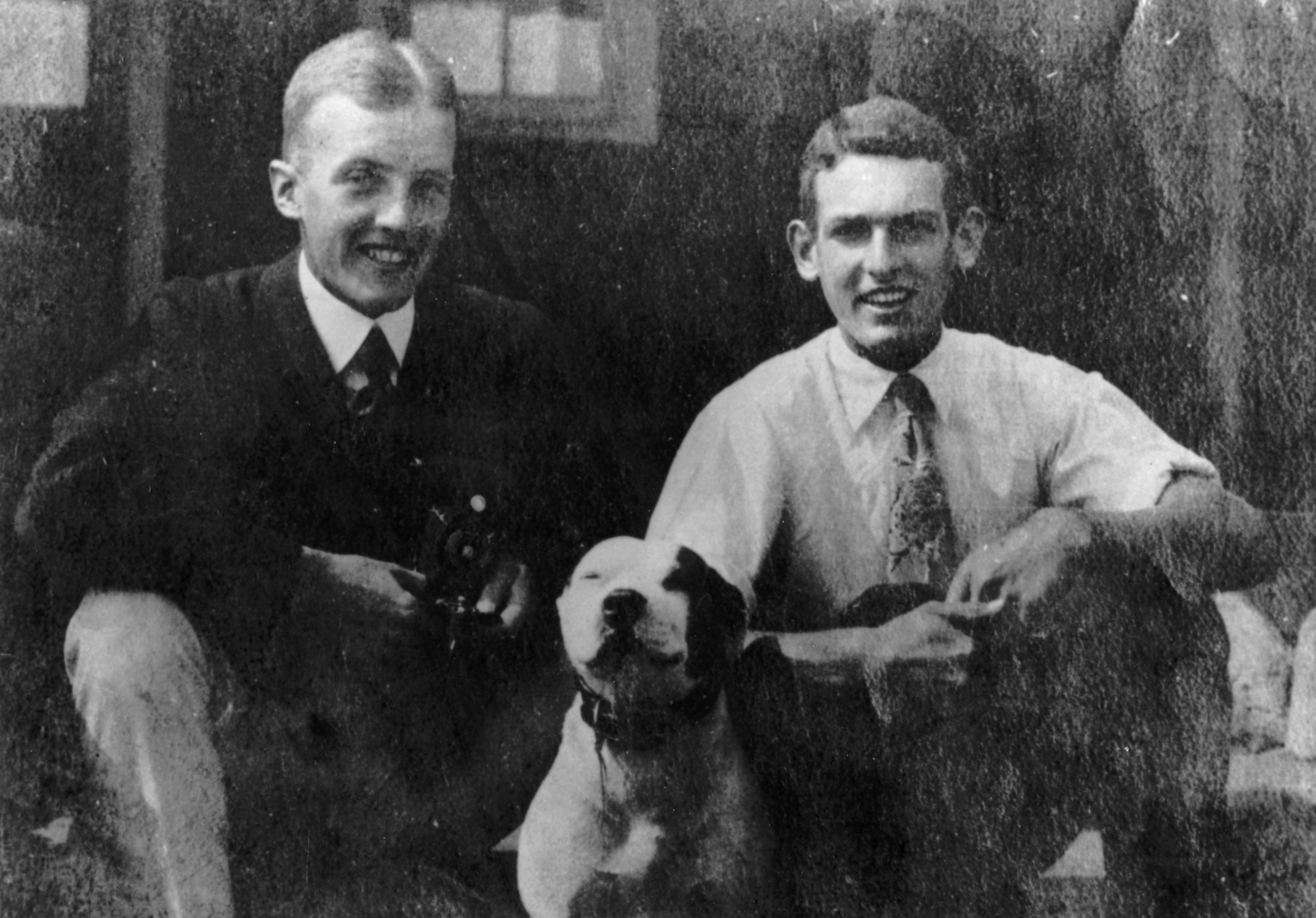 A black and white photograph of Charles H. Best and Clark Noble circa 1920 in Georgetown, Ontario. Shows Best and Noble sitting side by side. Best and Noble were friends and classmates in the Department of Physiology at the University of Toronto. In the summer of 1920 they both played on the Georgetown baseball team. There is a dog in the foreground.